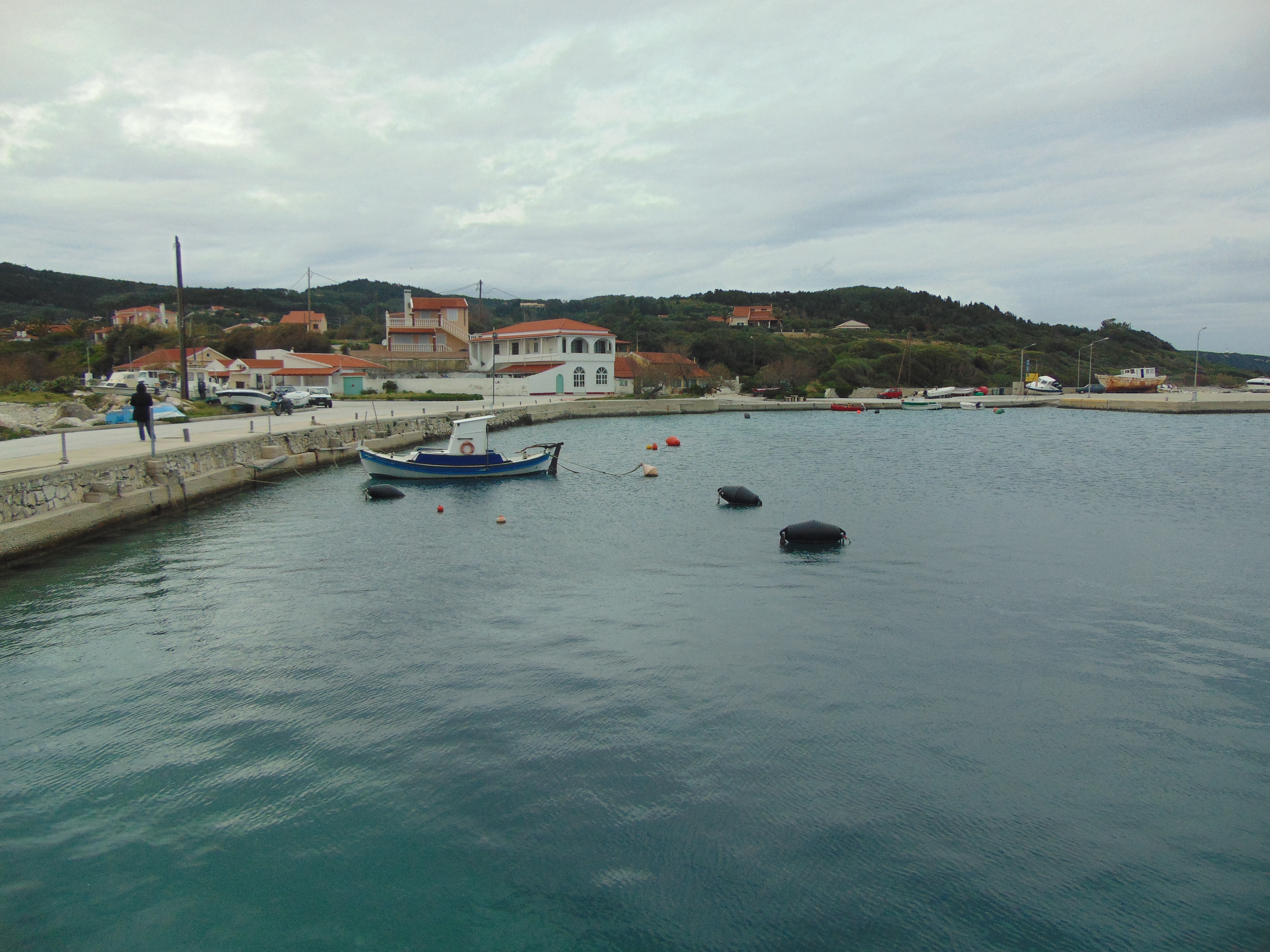 Avlakia port, Othoni island, Hellas